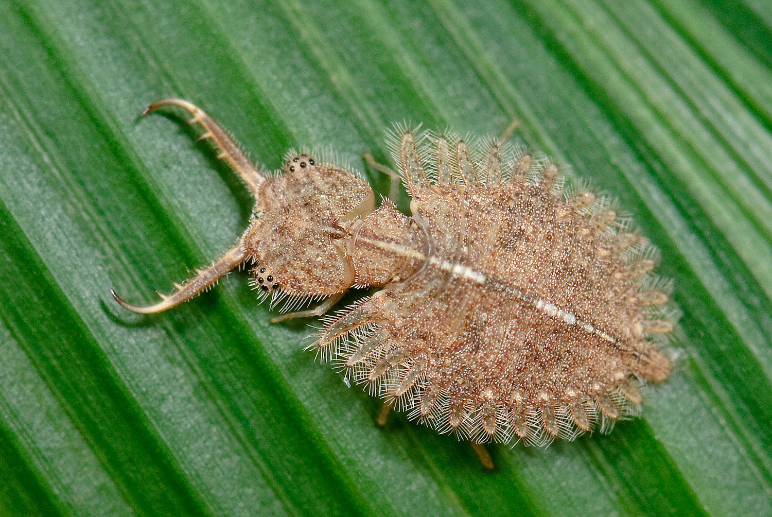 Owlfly larva from Nicaragua